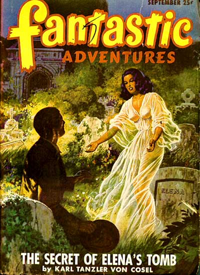 Copy of cover of September, 1947 edition of Fantastic Adventures